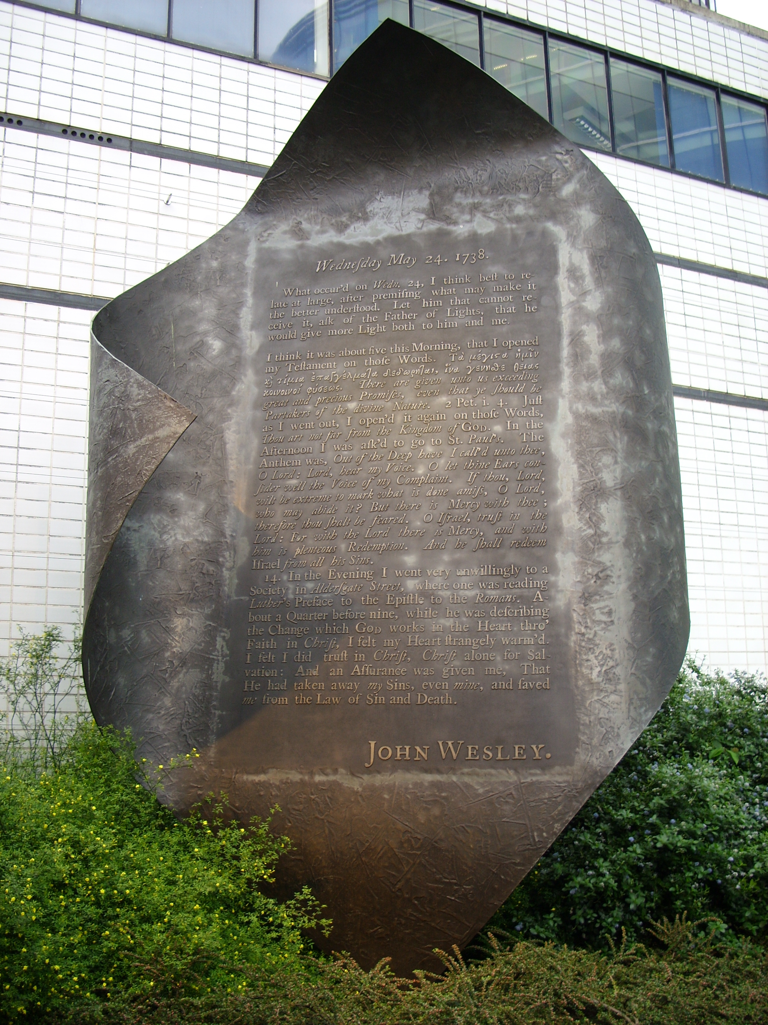 John Wesley memorial, Aldersgate, London